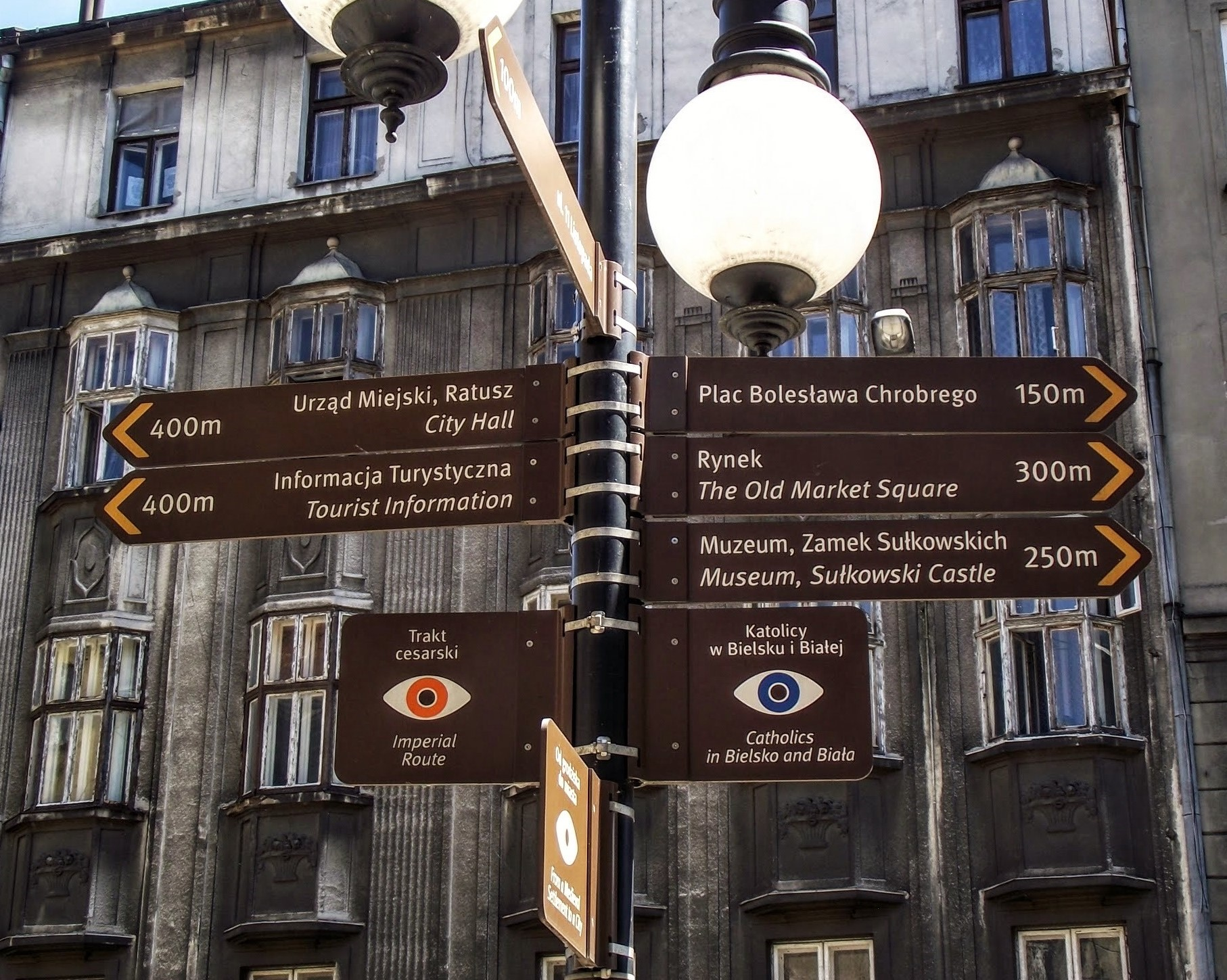 City Information System in Bielsko-Biała: road-sings and sings of tourist routes.